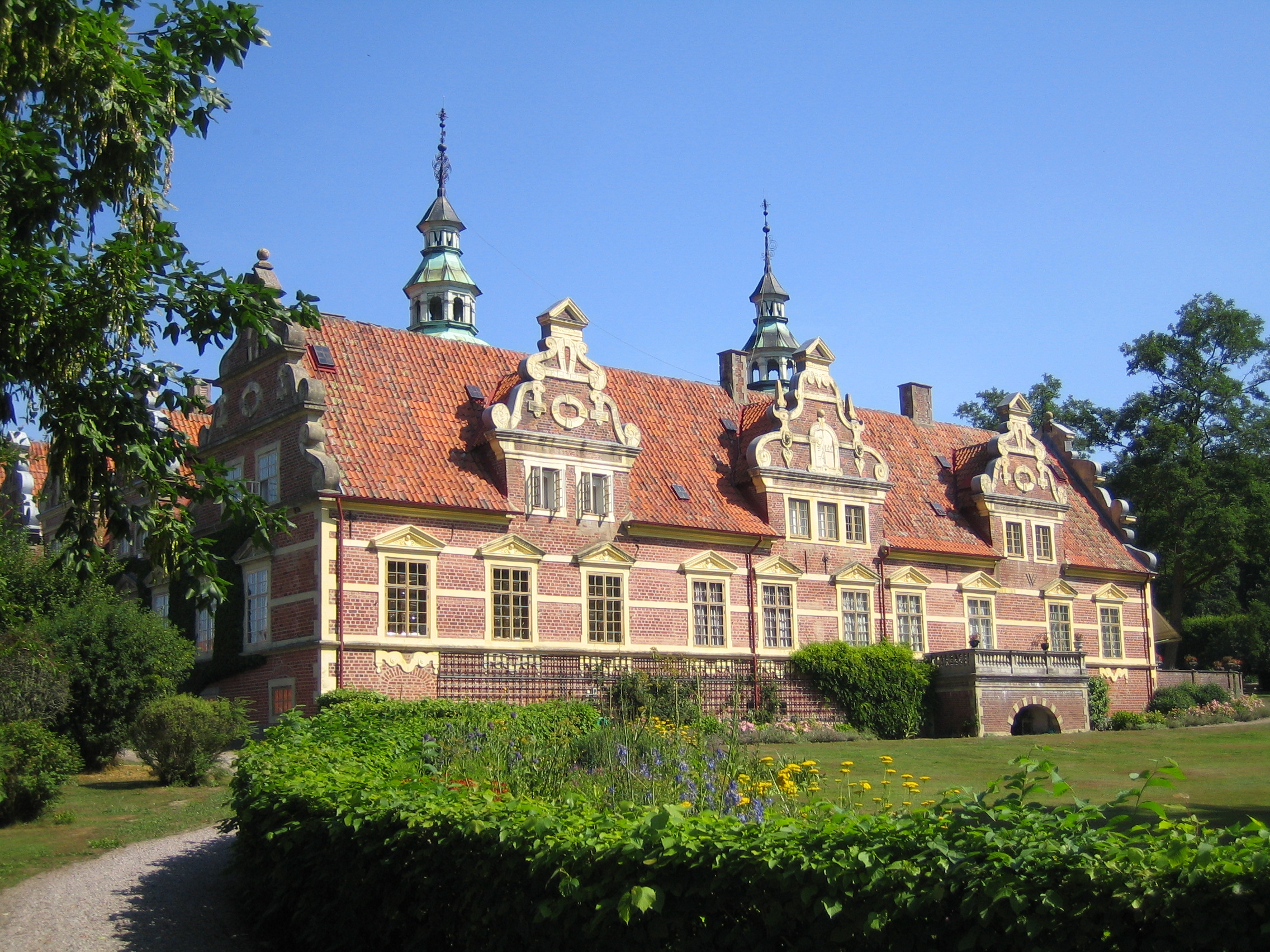 Picture of Vrams Gunnarstorp castle in Scania, Sweden.